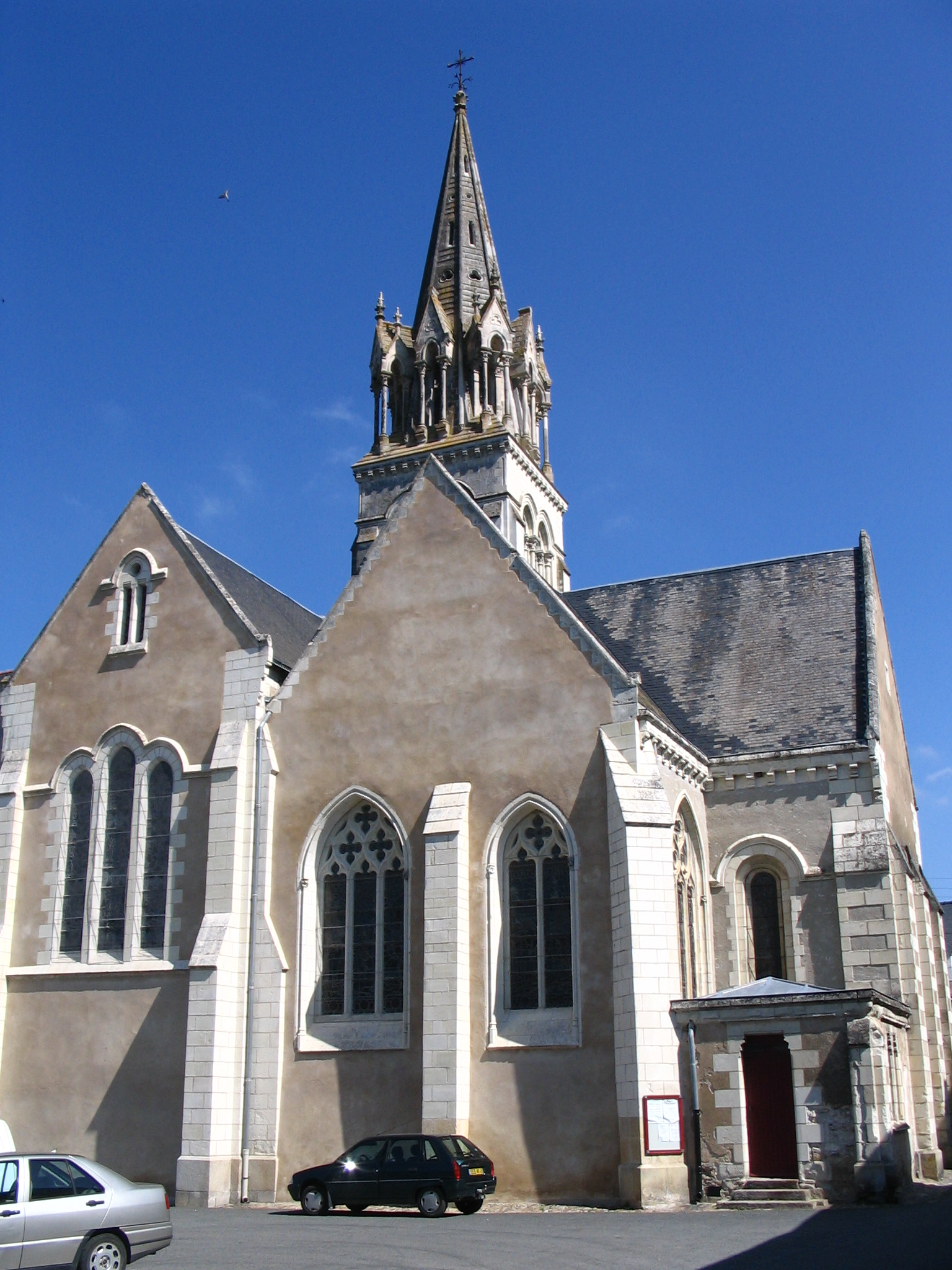 The church of Morannes, Maine-et-Loire, France.